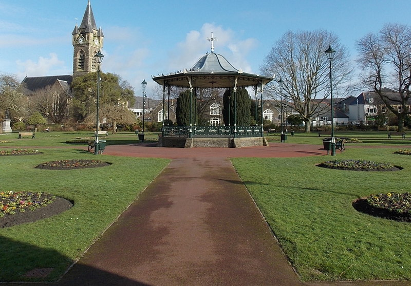 Victoria Gardens bandstand, Neath. Located in the middle of the town centre park, the octagonal bandstand dates from 1897, when the park was first laid out, for Queen Victoria's Diamond Jubilee.